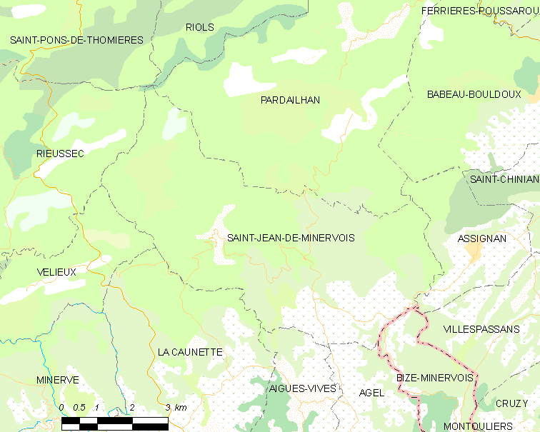 Map commune FR insee code 34269.png - Saint-Jean-de-Minervois